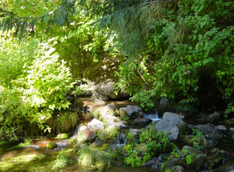 Northeastern headwaters of the Sacramento River — in its eastern tributary, the Pit River. Located in Lava Beds National Monument, Modoc County, Northeastern California. (Original text also include: Photograph by Daniel Mayer. Taken in October 2003 and released under terms of the GNU FDL)